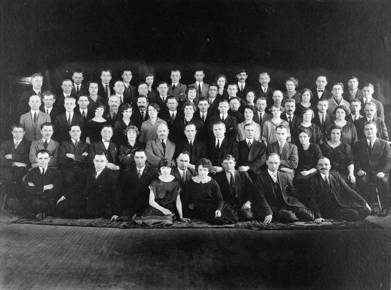 Title / Titre : Seventh convention of the Ukrainian Labour Farmer Temple Association / 7e Congrès de l’Ukrainian Labour Farmer Temple Association Creator(s) / Créateur(s) : Venus Studio Date(s) : January 25-27, 1926 / 25-27 janvier 1926 Reference No. / Numéro de référence : MIKAN 3368098 Location / Lieu : Unknown / Inconnu Credit / Mention de source : Venus Studio. George E. Dragan. Library and Archives Canada, PA-088615 / Venus Studio. George E. Dragan. Bibliothèque et Archives Canada, PA-088615